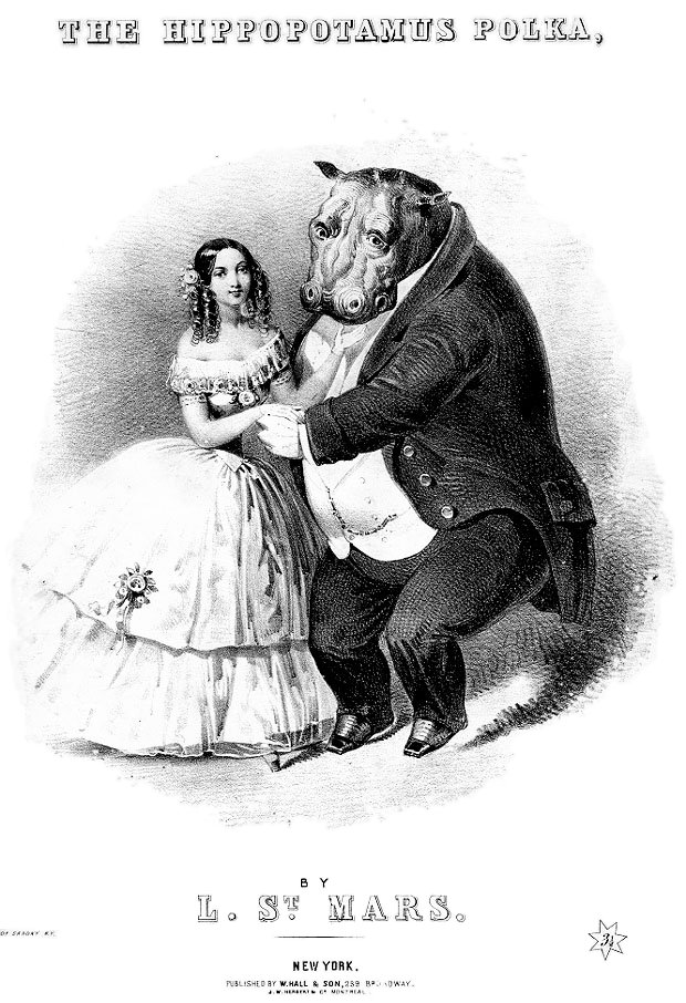 Cover for sheet music of the "The Hippopotamus Polka", published in the early 1850's (see Obaysch) by W. Hall & Son, 259 Broadway, New York. The song was by Louis St. Mars, while the illustration of the young lady dancing the polka with a hippo was by John H. Sherwin from the lithography studios of Napoleon Sarony